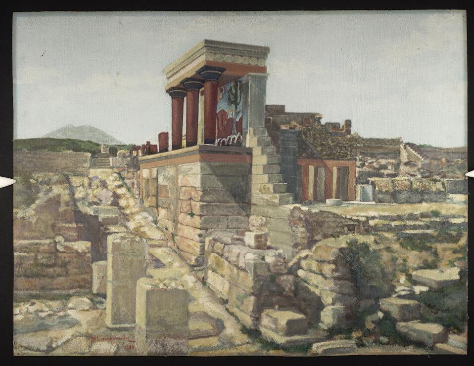 Oil painting of the ruins of the Palace of Minos by N. Lambrinides. From the papers of Arthur Evans relating to excavations at Knossos in Crete. Originals held at the Ashmolean Museum: shelfmark given in file name. More provenance information at